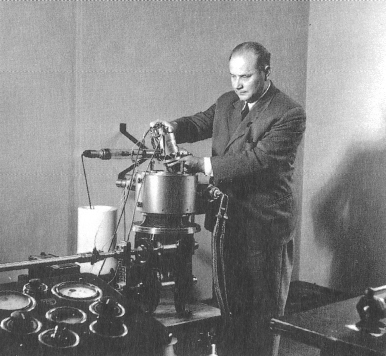 Photograph of the Finnish physicist Paavo Tahvonen (1904–1981) with an X-ray spectrographer.